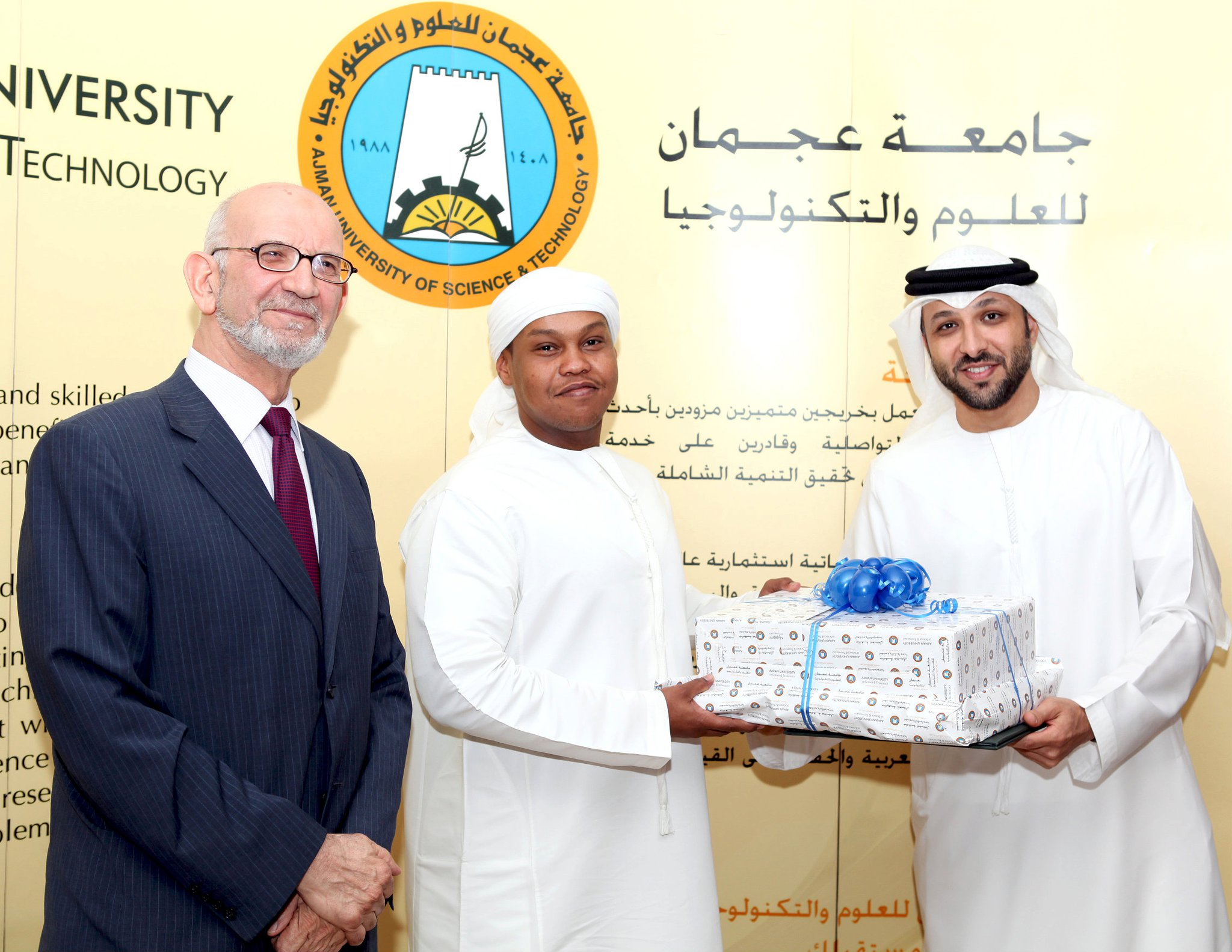 Award by Vice President of Ajman University for Commendable achievement for the year.2011